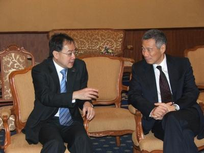 Virachai Virameteekul, Minister Attached to the Prime Minister's Office of Thailand, with the Prime Minister of Singapore Lee Hsien Loong.